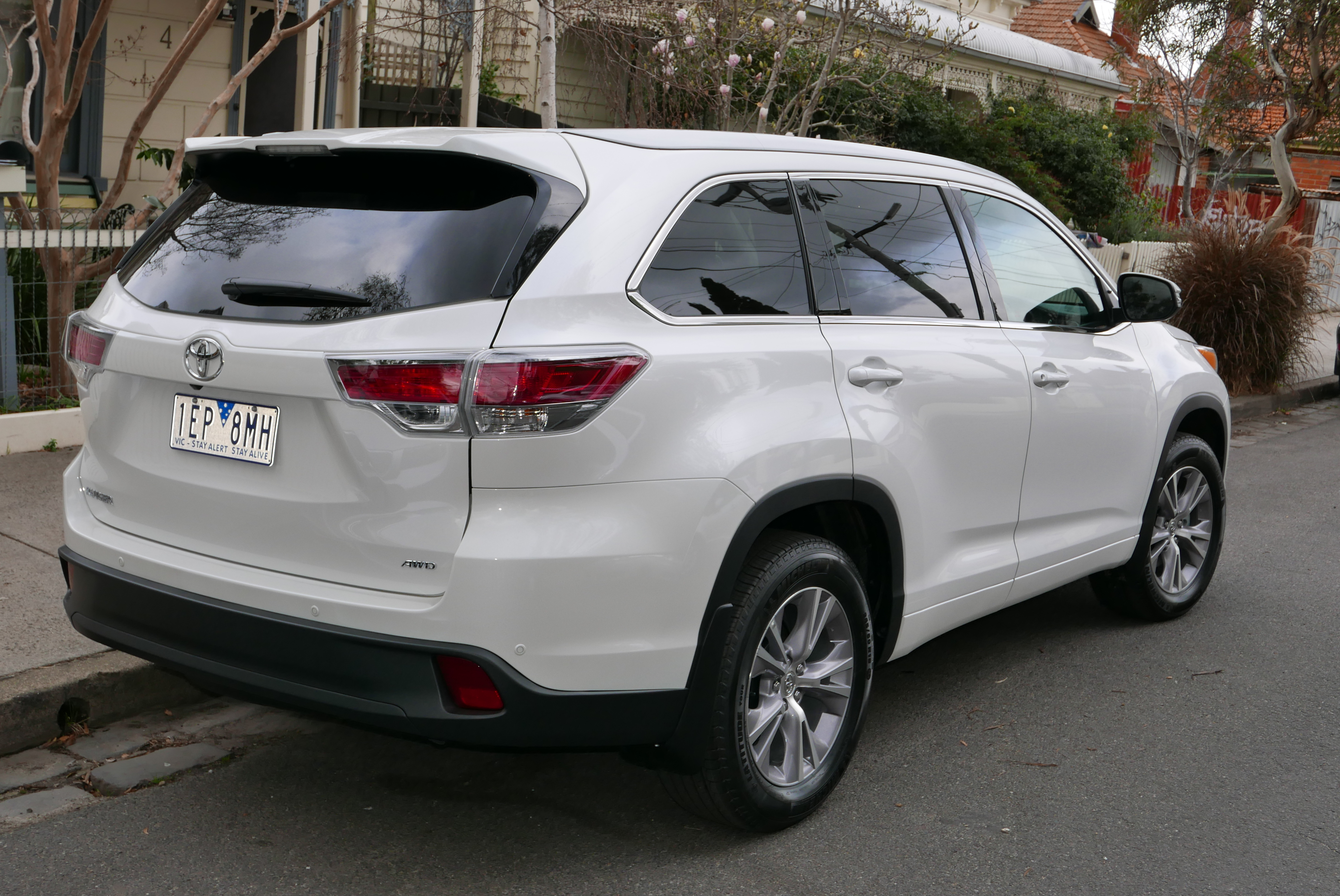 2015 Toyota Kluger (GSU55R) GXL wagon. Photographed in Northcote, Victoria, Australia. Vehicle registration enquiry resultsJurisdictionVictoriaRegistration1EP8MHChassis code5TDBK3FH80S155040Engine code2GRM071005Compliance date2015-06Year of manufacture2015